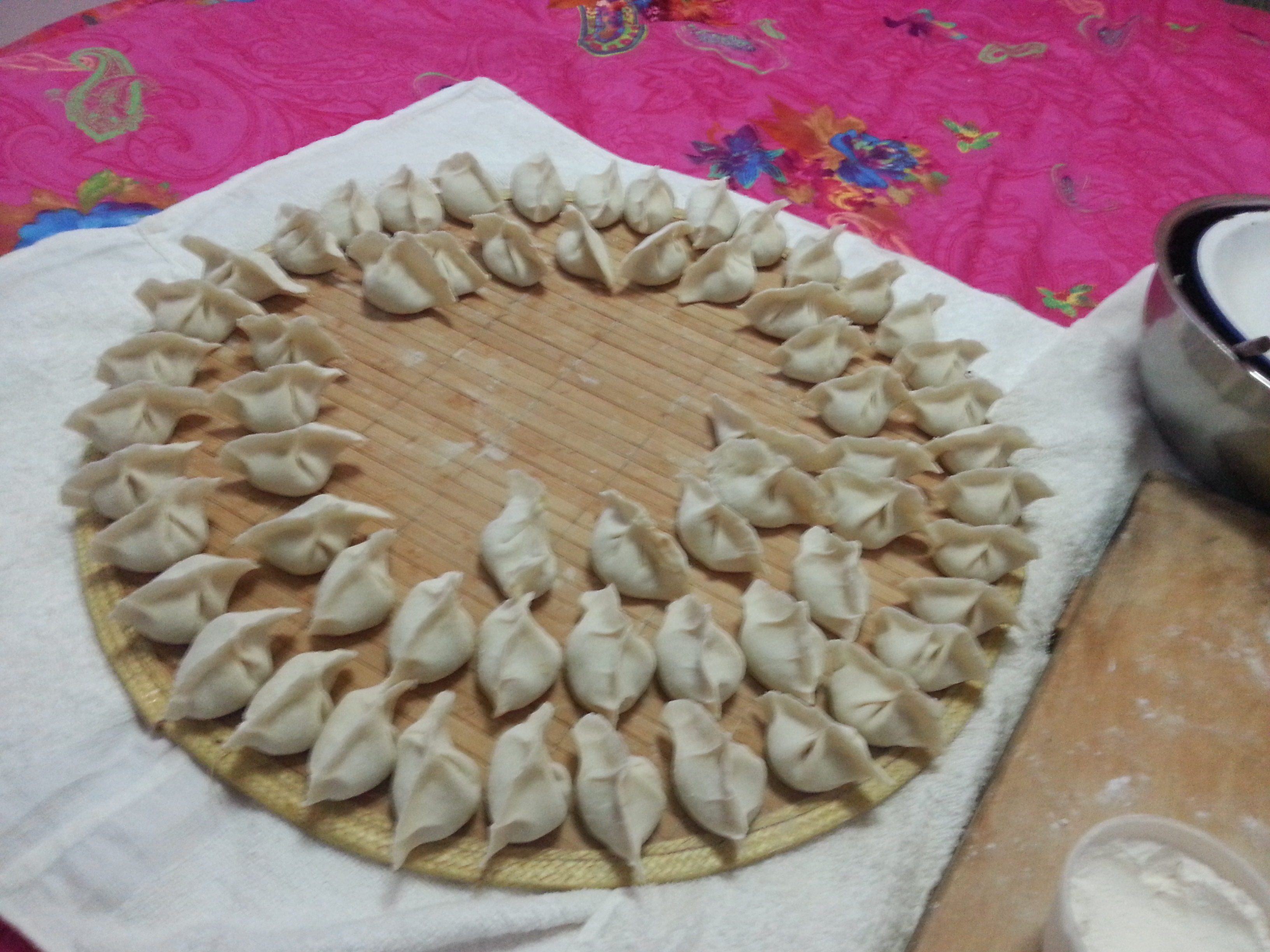 Making Chinese dumplings calles Jiaozi